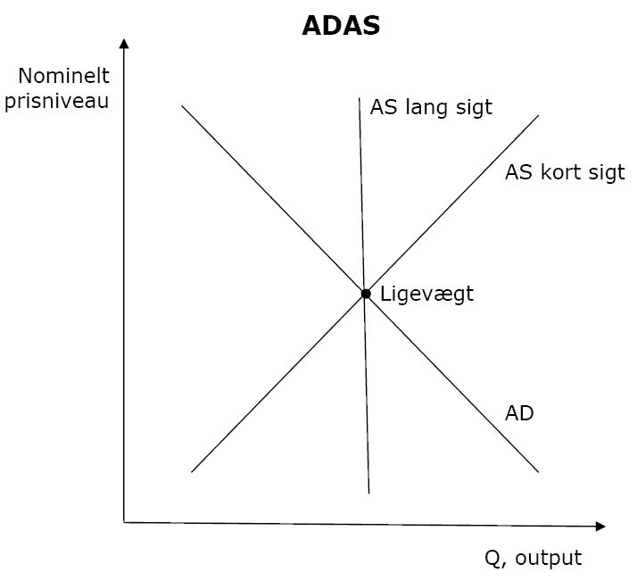 AD-SL model in Danish